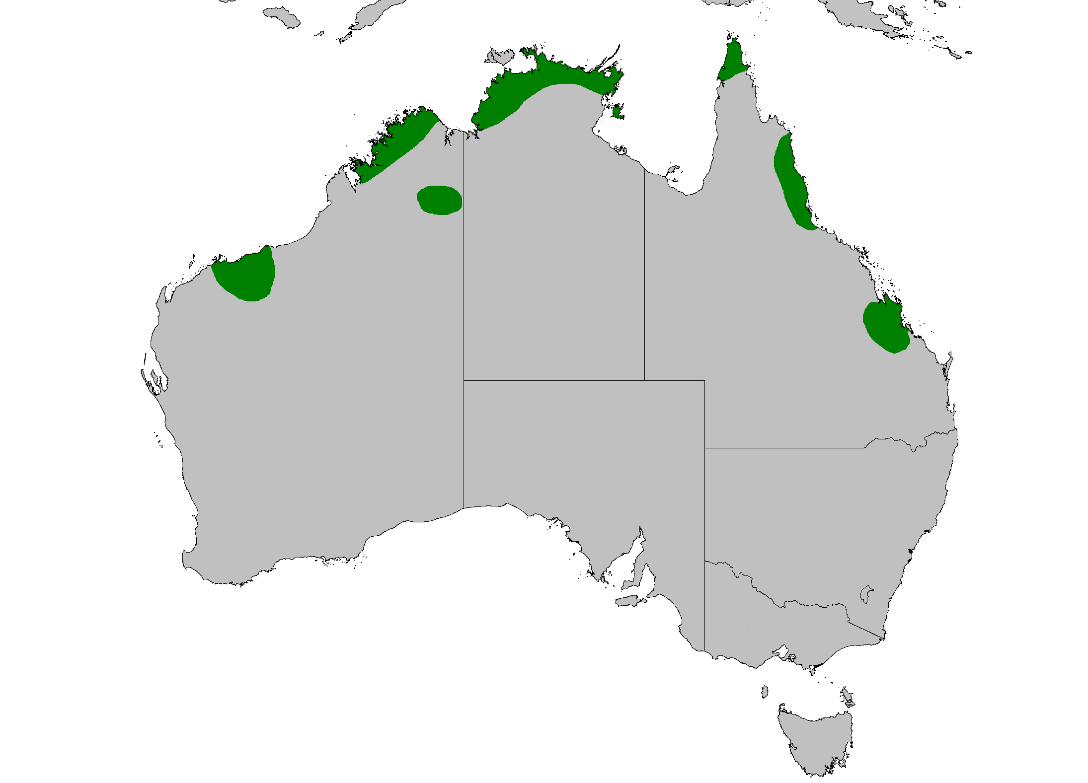 range map of northern quoll (Dasyurus hallucatus)